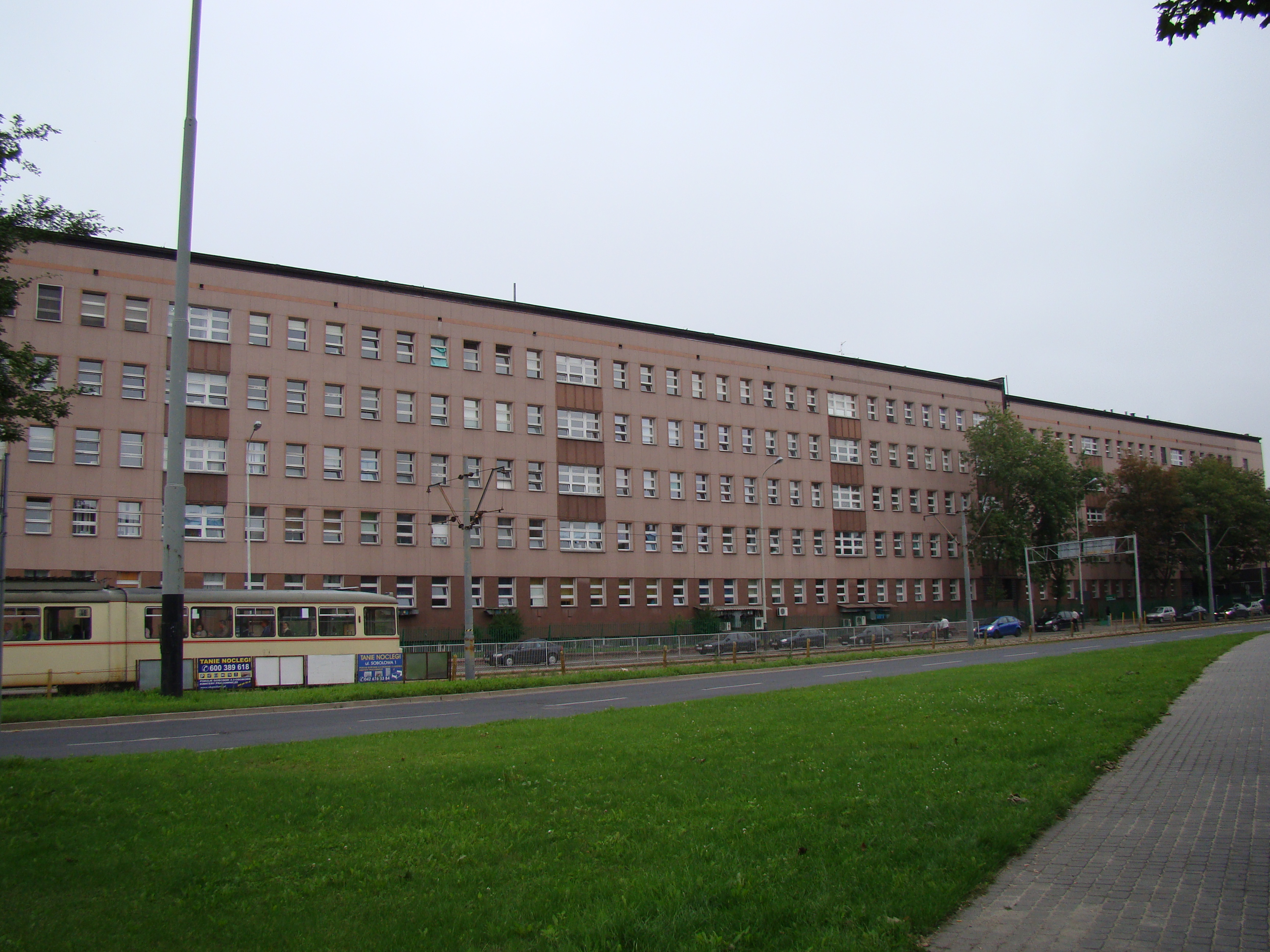 Medical University Clinic in Łódź